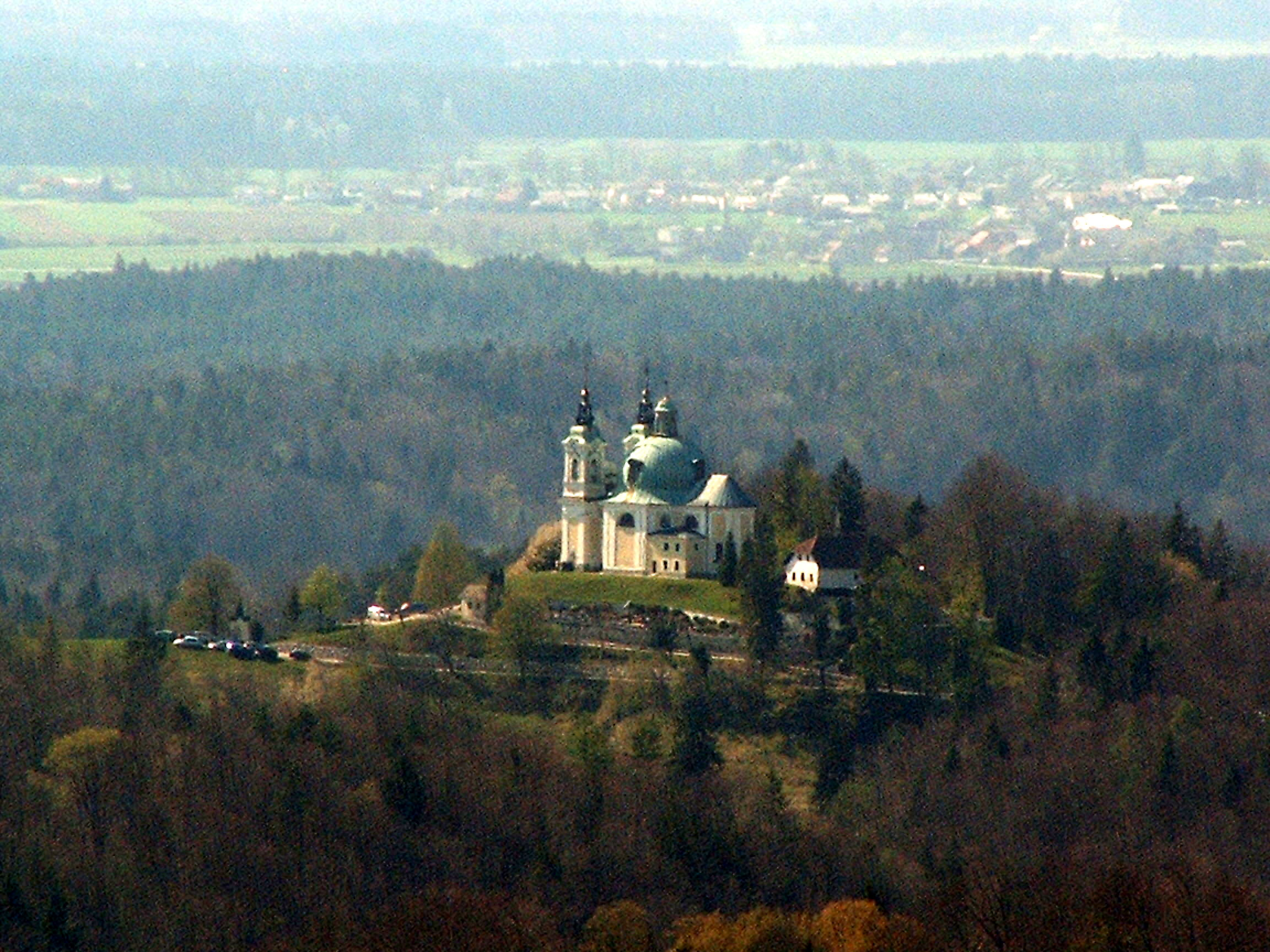 St. Anne's Parish Church in Tunjice with the village of Tunjice in the background